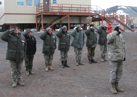 As the 2009-2010 Operation Deep Freeze season winds down, Maj. Jeff Hedges, Joint Task Force Support Forces Antarctica executive officer, leads Airmen at McMurdo Station, Antarctica, during a retreat ceremony Feb. 16 2010, following the departure of the last LC-130 Hercules from the continent.